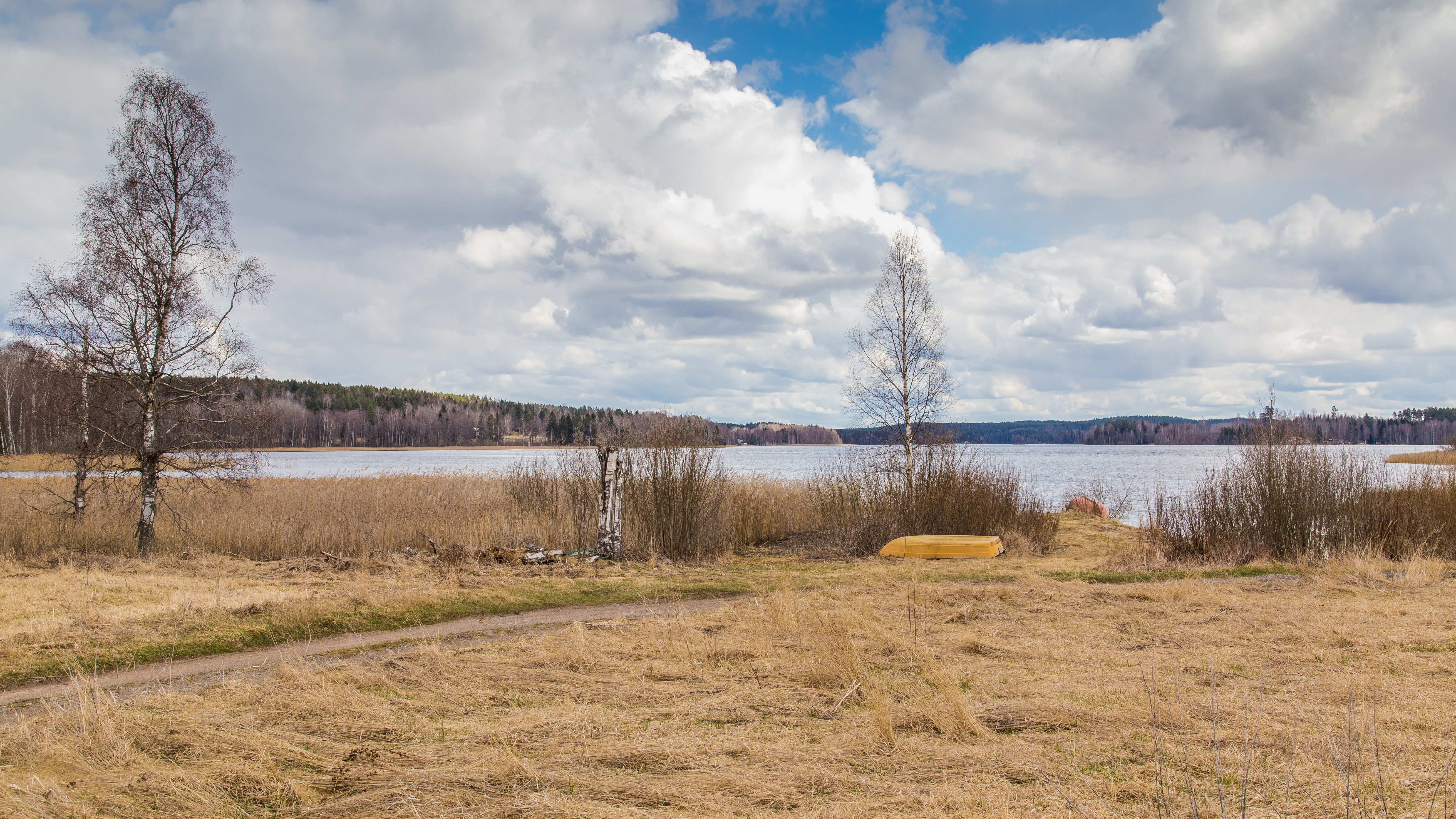 Lake Nävden, at the village Norr Nävde, Avesta Municipality, Dalarna County, Sweden.